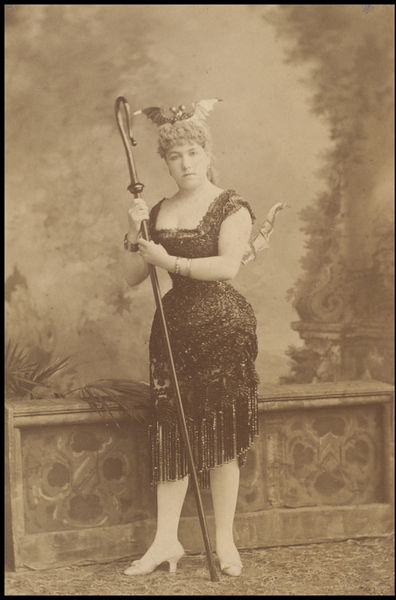 Carte de visite of Constance Loseby (1846-1906), possibly in The Black Crook (1882)